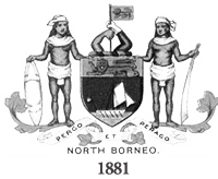 Logo of the British North Borneo Chartered Company